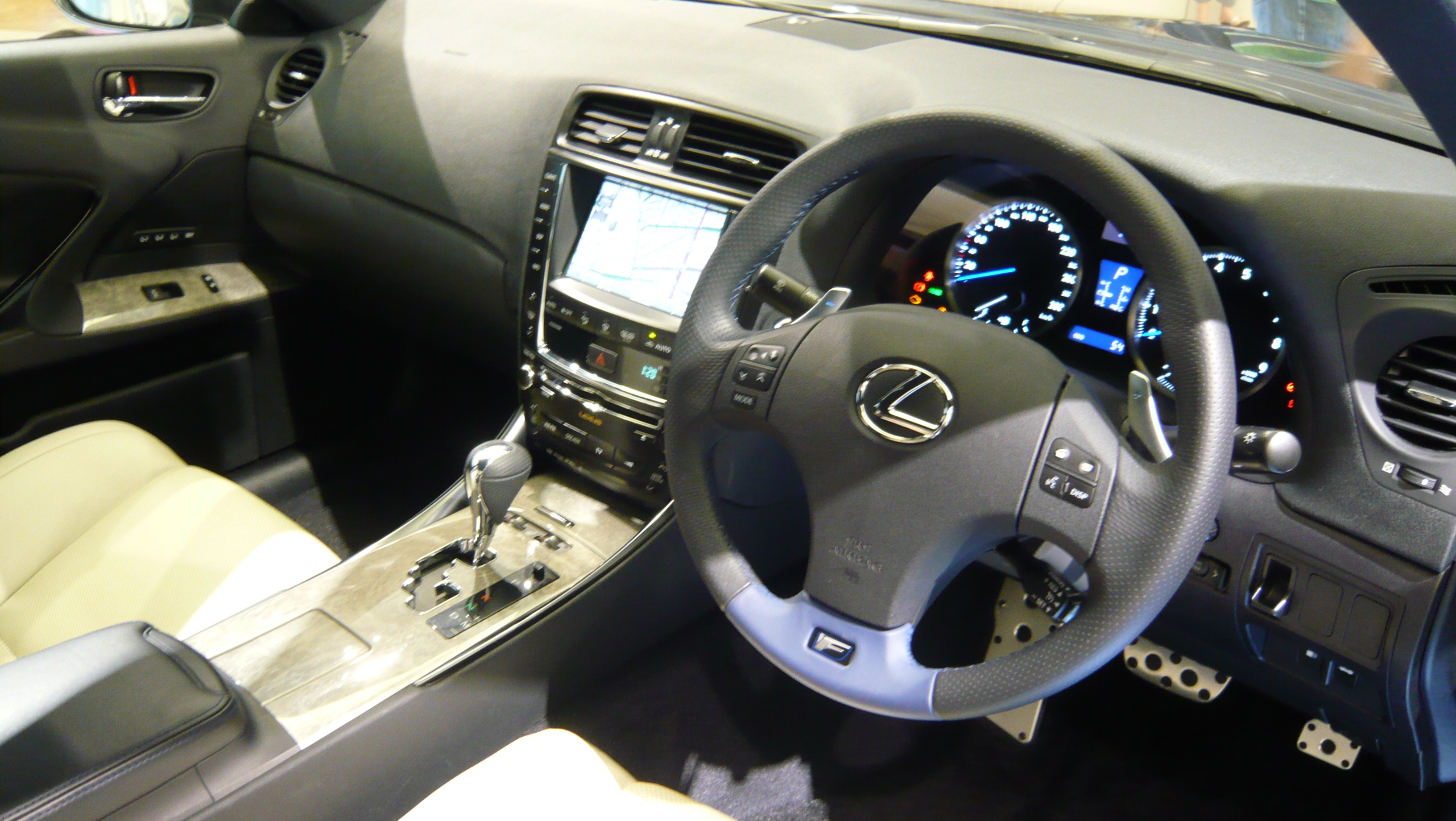 A picture of Lexus IS F.